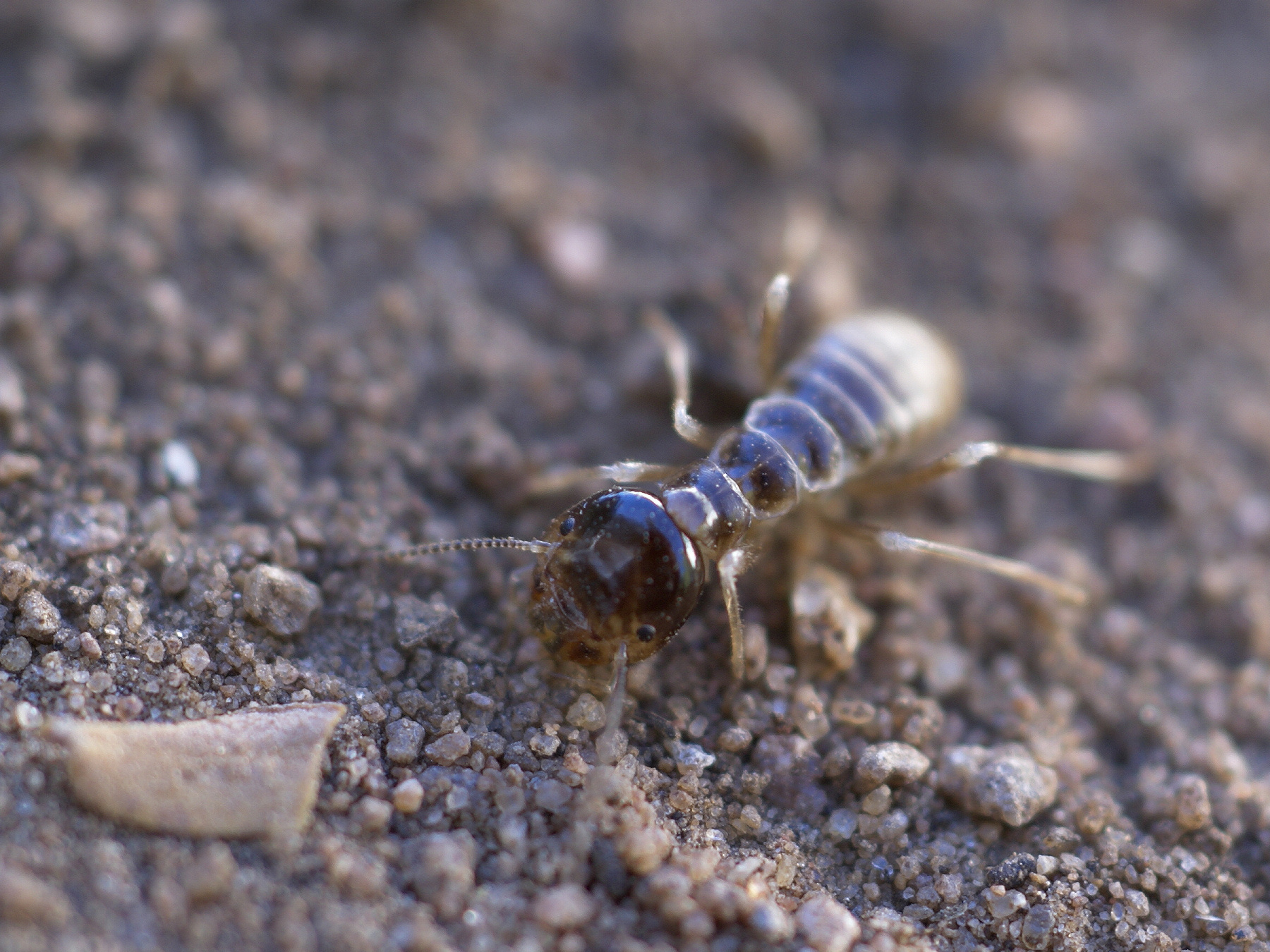 Northern Harvester Termite in Tsumeb, Namibia Identification: Picker, M., C. Griffith, and A. Weaving. (2004). Field Guide to the Insects of South Africa., Struik Publishers. 440 p. ISBN: 9781770070615